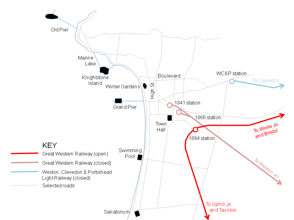 A map of Weston-super-Mare in Somerset, England showing the location of the various town centre railway stations. The deep red line represents the current branch line which was opened in 1884, the pink lines represent the earlier Great Western Railway branch line which was closed after the new line opened. The station of the Weston, Clevedon and Portishead Light Railway is also shown. The sea front, principal buildings and a selection of roads show the relationship of the railways to the town centre.